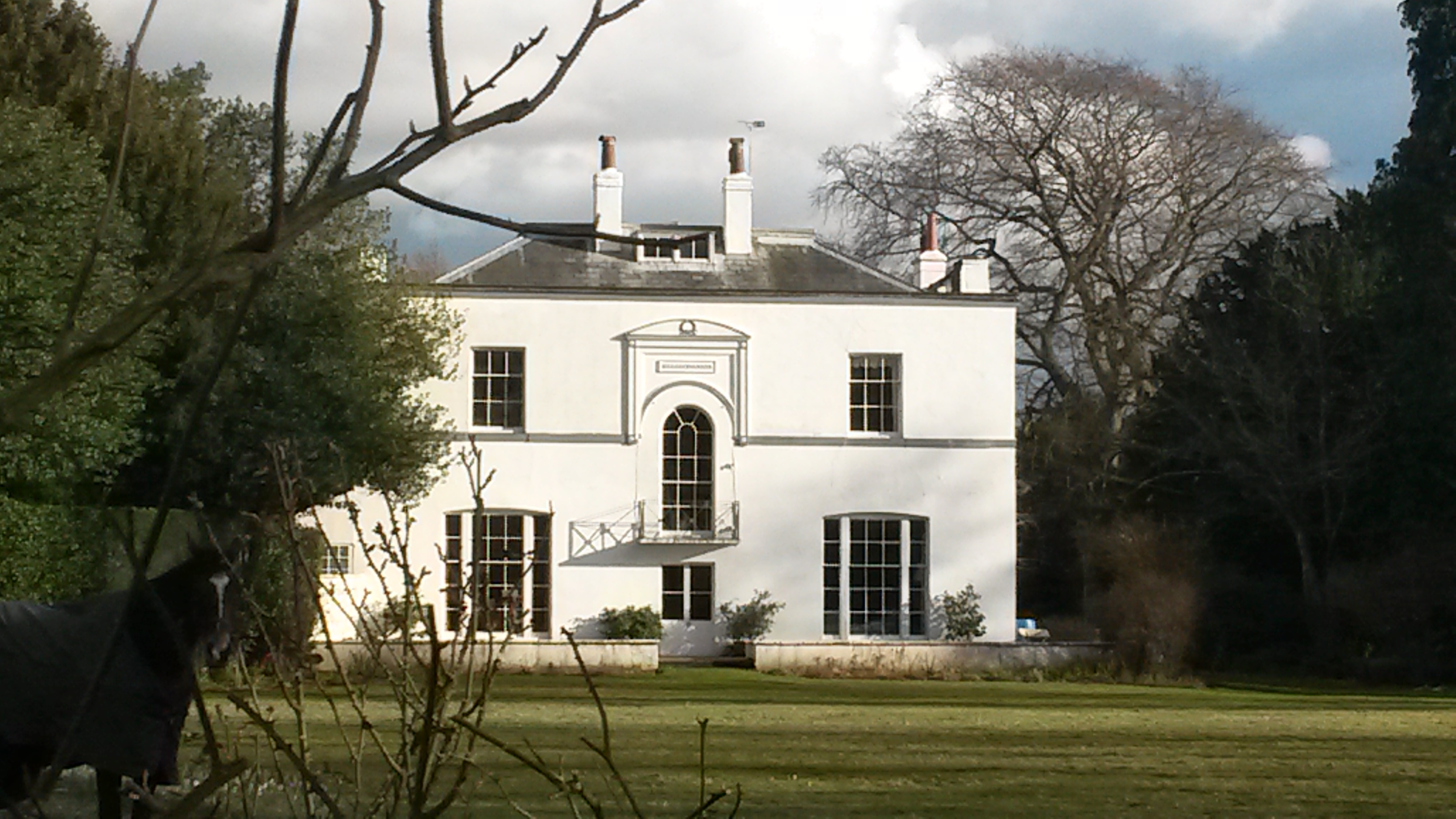 A view of the south side of Mulberry House in Bentworth, Hampshire.